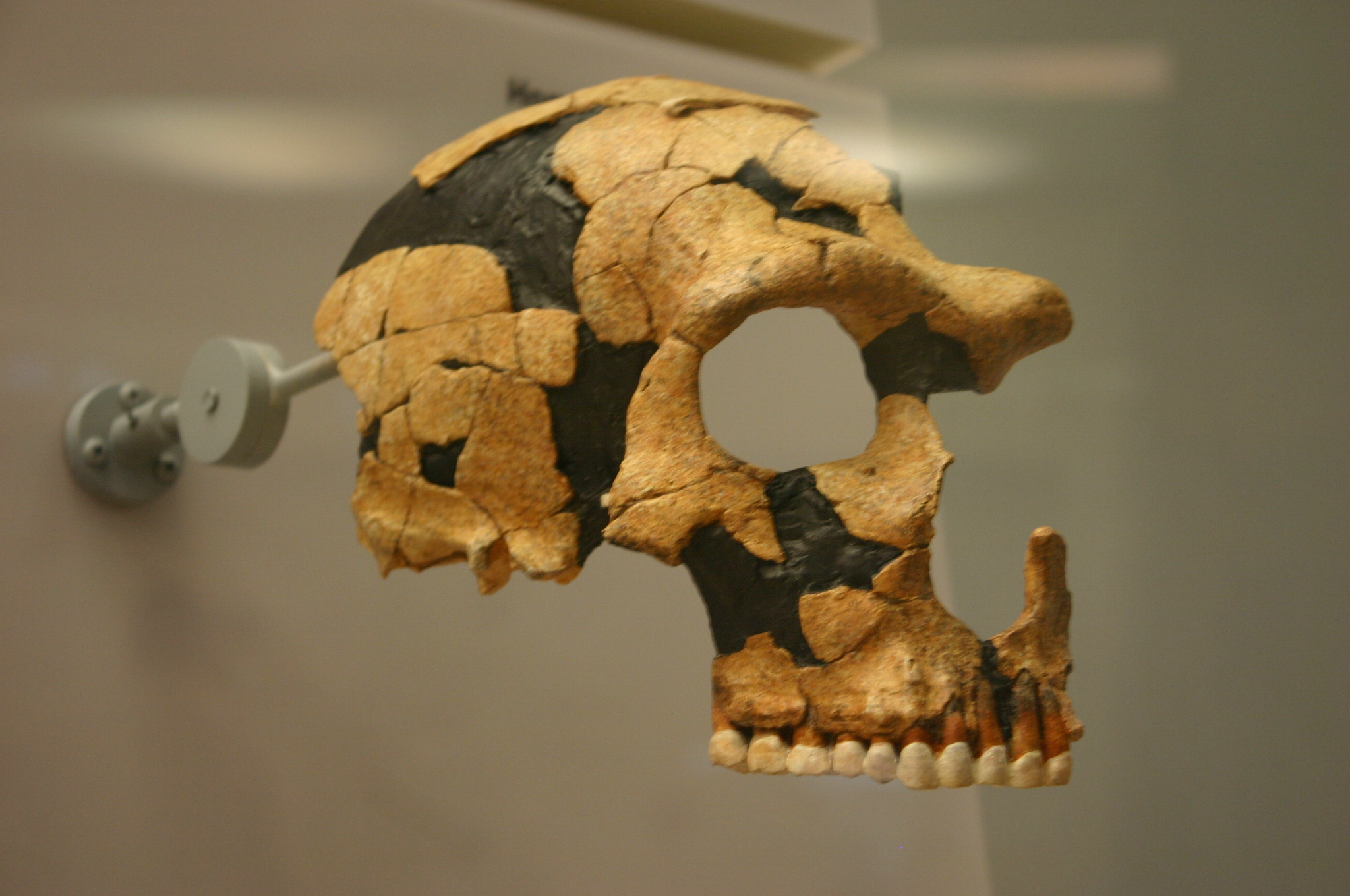 Taken at the David H. Koch Hall of Human Origins at the Smithsonian Natural History Museum.